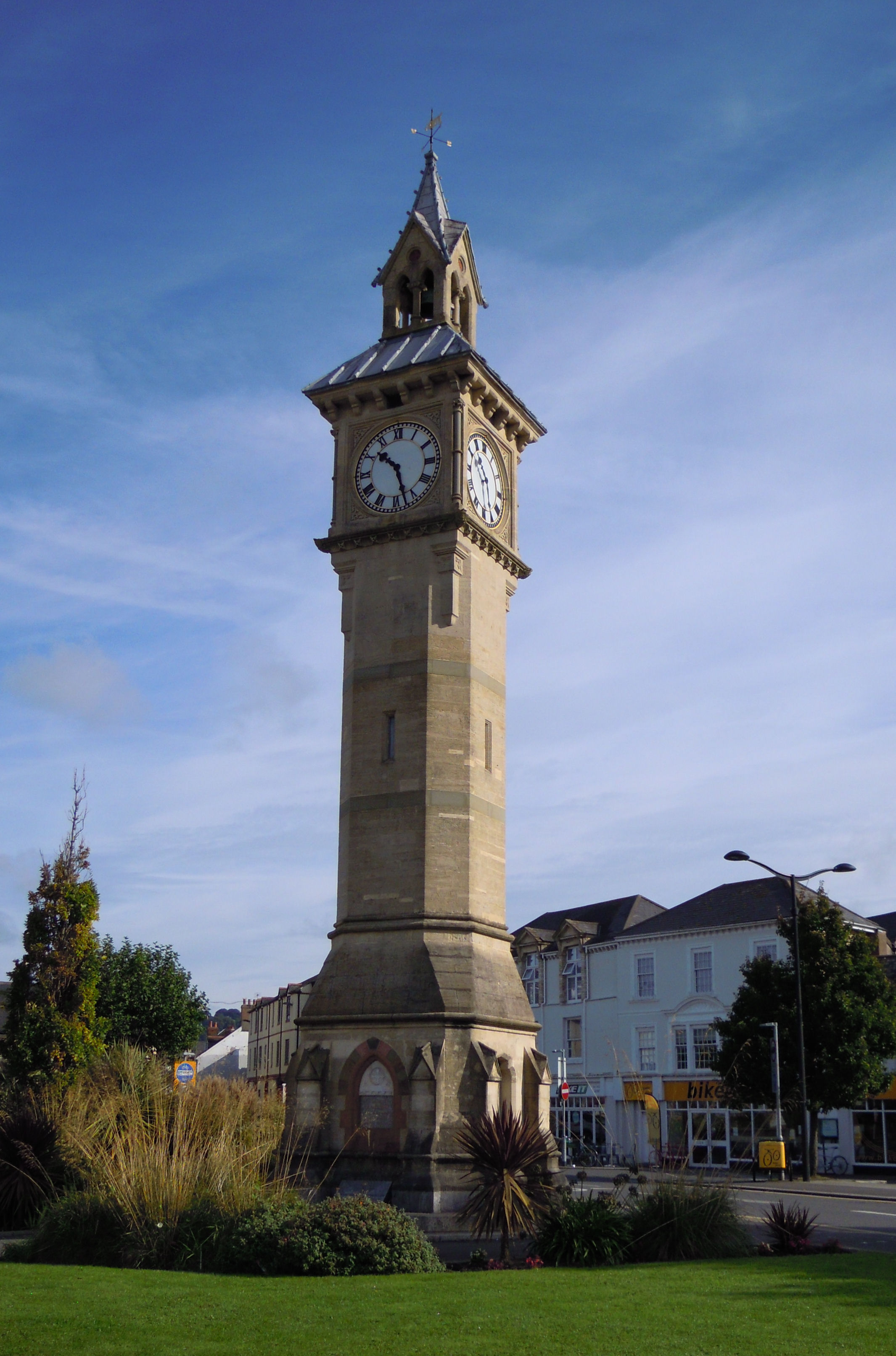 Clocktower Wikidata has entry Q26665145 with data related to this item.